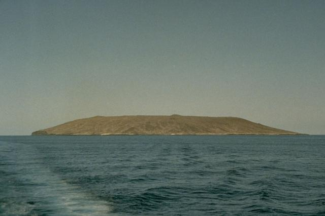 Isla Tortuga is 4-km-wide volcanic island located in the Gulf of California, 40 km off the coast of Baja California.